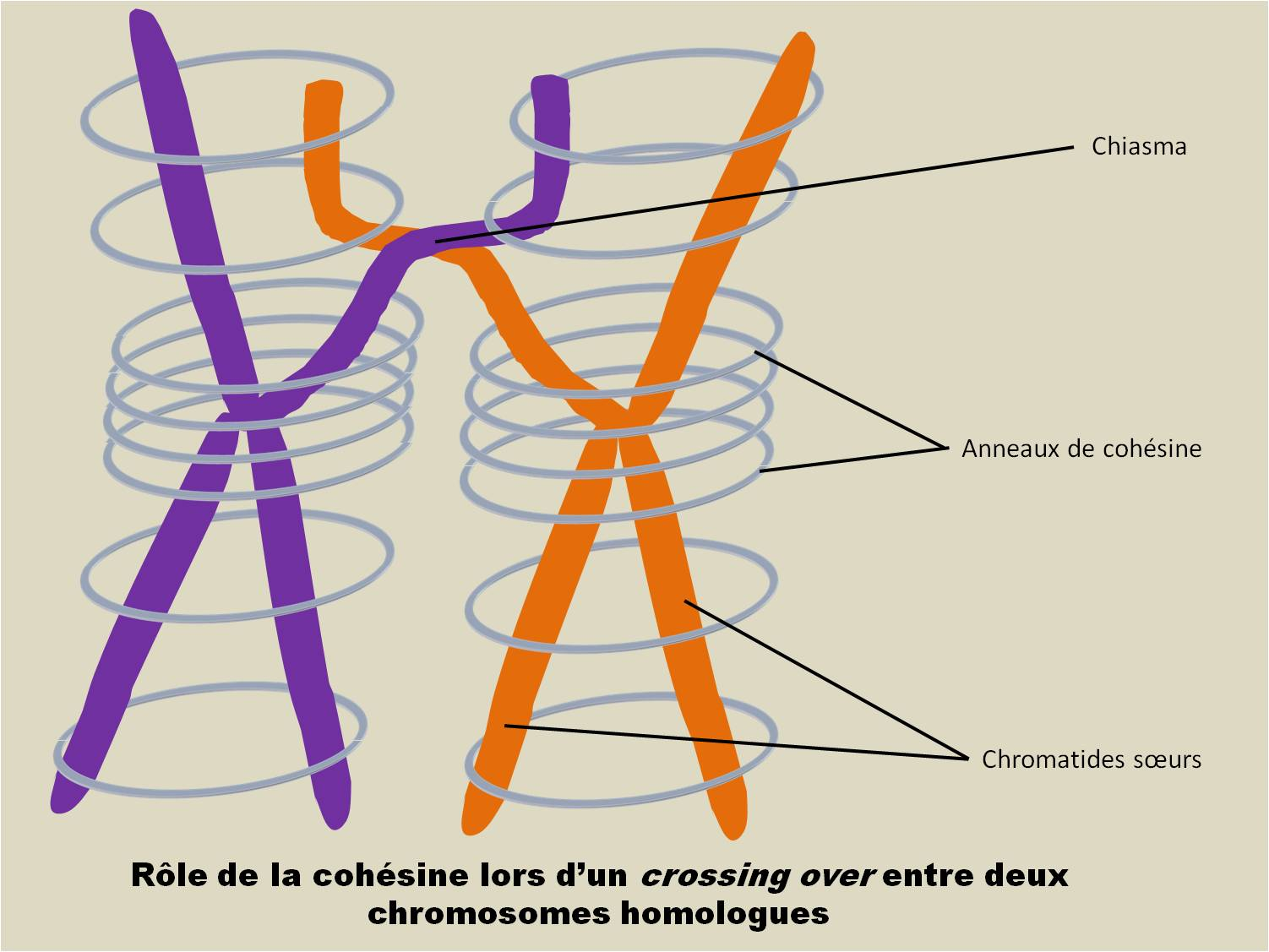 Role de la cohésine lors d'un crossing over entre deux chromosomes homologues